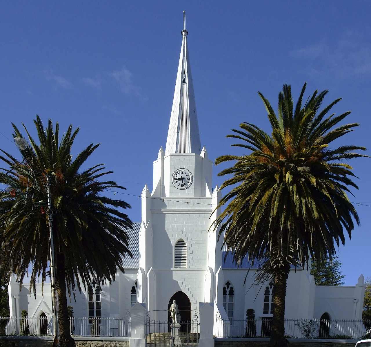 Dutch Reformed Church, Charles Street, Somerset East This media shows a South African Protected Site with SAHRA file reference 9/2/082/0006.